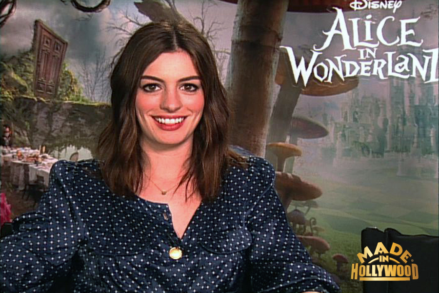 Anne Hathaway at Alice In Wonderland Fan Event